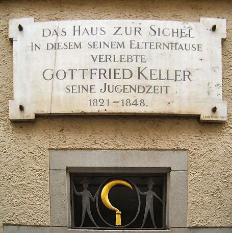 Plaque on top of Gottfried Keller's parents' house in Zürich Translation: The "Haus zur Sichel" (literally: "House to the sickle") his parents' house in with Gottfried Keller spend his adolescence (from 1821 - 1848)